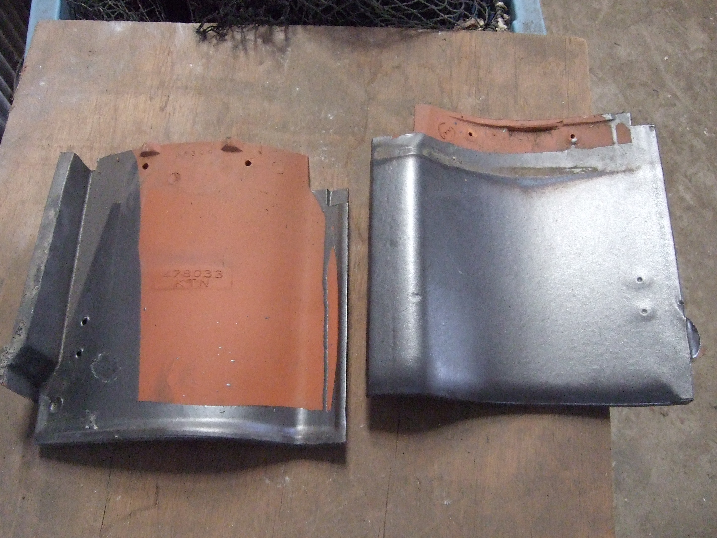 japanese roof tile （Glaze coating tile;glazed tile)